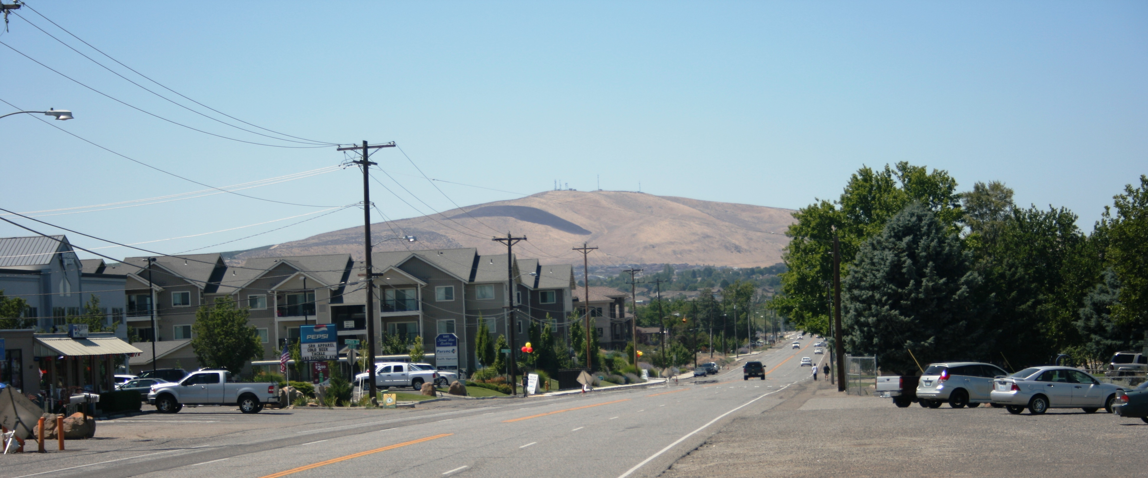 The Richland Y is an unincorporated community in Benton County, Washington, United States, located within the east city limits of Richland. Looking west toward Badger Mountain.